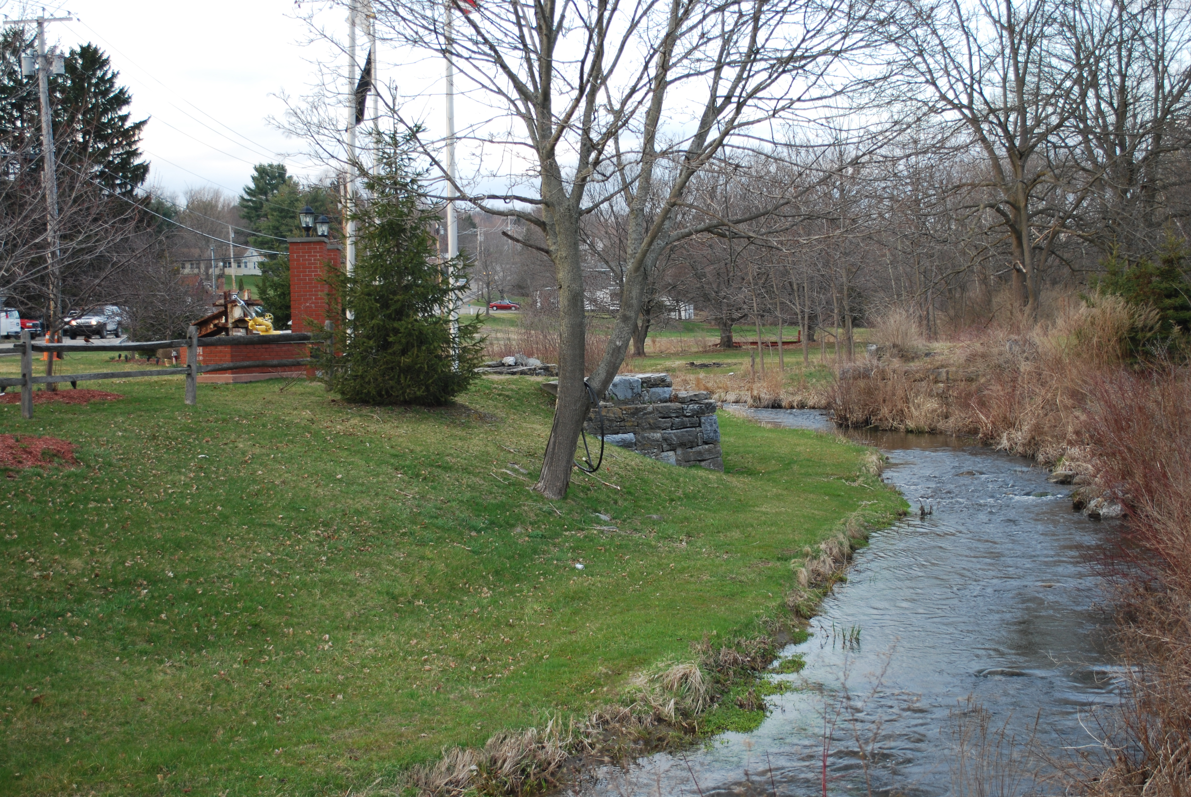 The Sprout Creek in Verbank, New York; a portion of NY 82 is visible.